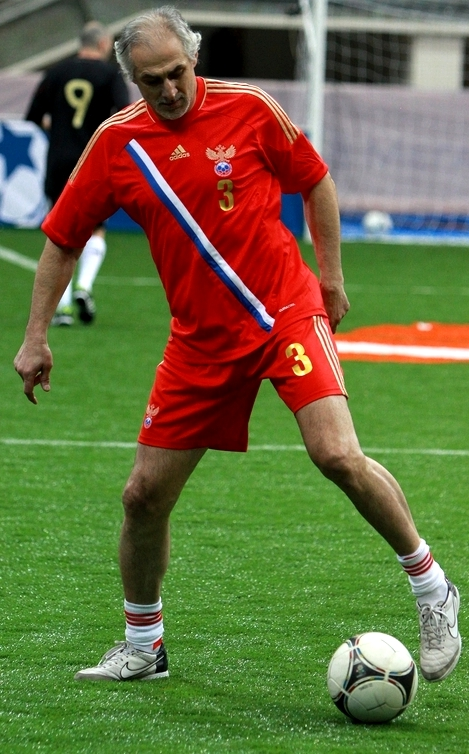 Akhrik Tsveiba